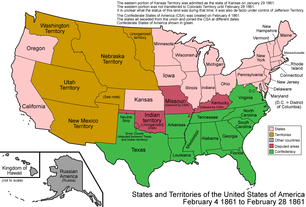 Map of the states and territories of the United States as it was from February 4 1861 to February 28 1861. On February 4 1861, the Confederate States of America was created. Several states had seceded from the union on dates prior to this, and joined the CSA at different dates. To simplify the map, only the proclamation of the CSA is noted here. On February 28, Colorado Territory was created from portions of Utah, New Mexico, Nebraska, and the previous Kansas Territories.